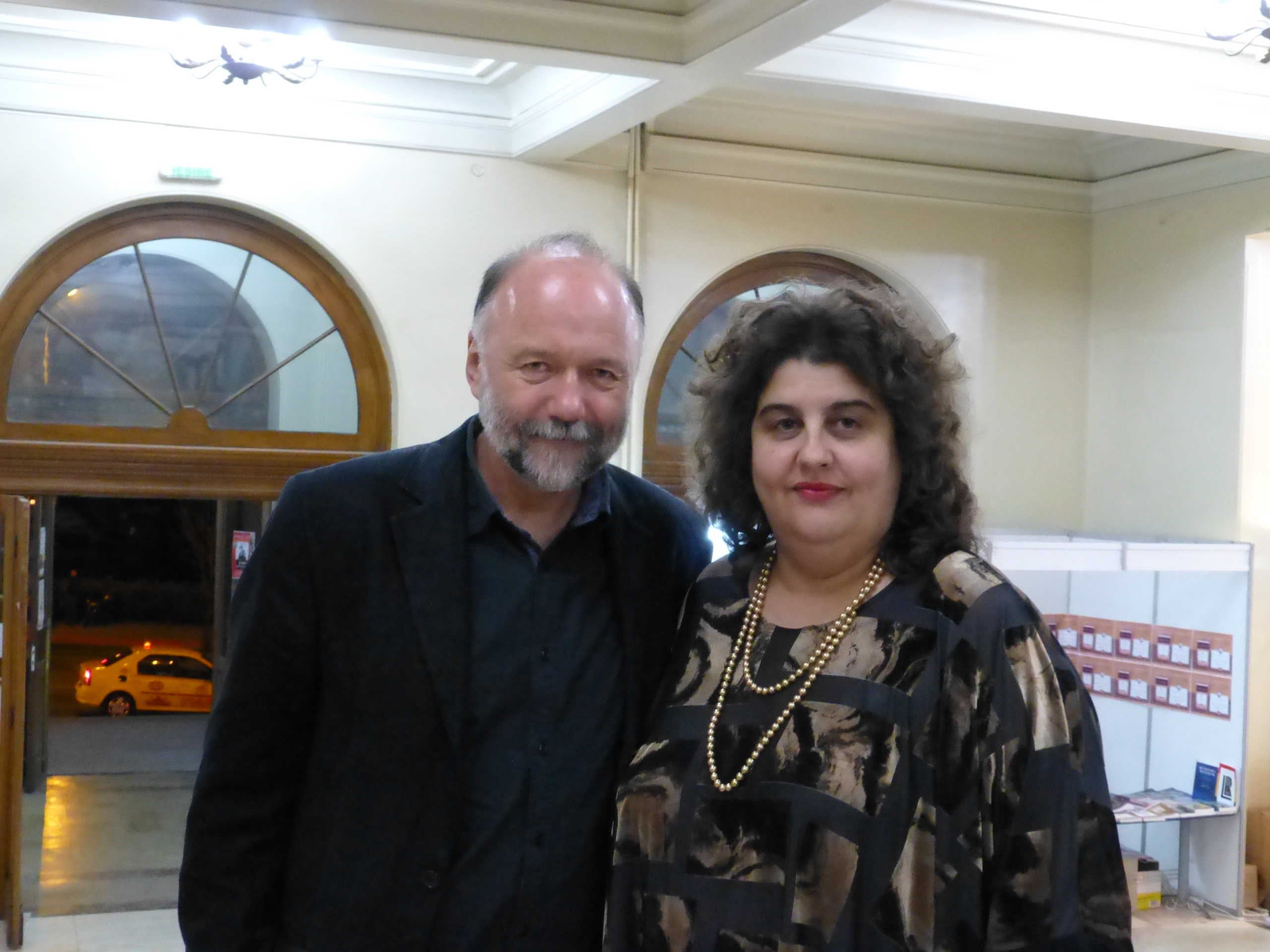 Iași, 2013, cu Andrei Kurkov